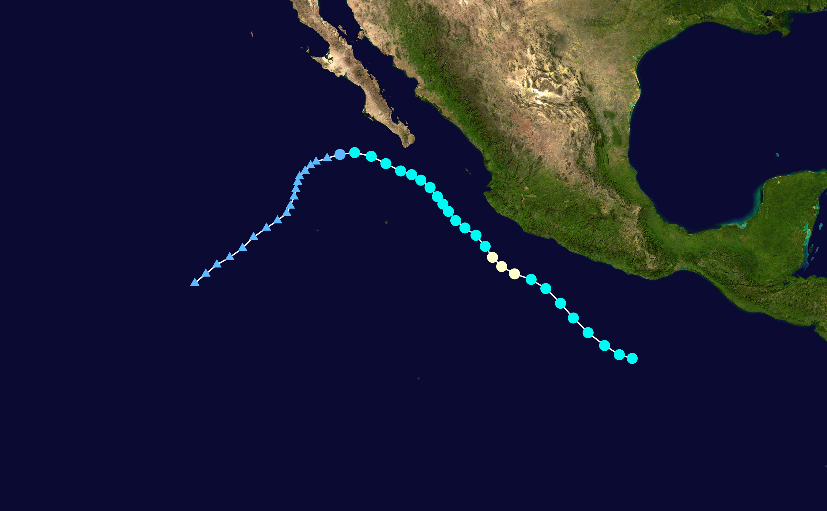 Track map of Hurricane Polo of the 2014 Pacific hurricane season. The points show the location of the storm at 6-hour intervals. The colour represents the storm's maximum sustained wind speeds as classified in the Saffir–Simpson scale (see below), and the shape of the data points represent the nature of the storm, according to the legend below. Saffir–Simpson scale Tropical depression≤38 mph≤62 km/h Category 3111–129 mph178–208 km/h Tropical storm39–73 mph63–118 km/h Category 4130–156 mph209–251 km/h Category 174–95 mph119–153 km/h Category 5≥157 mph≥252 km/h Category 296–110 mph154–177 km/h Unknown Storm type Tropical cyclone Subtropical cyclone Extratropical cyclone / Remnant low / Tropical disturbance / Monsoon depression